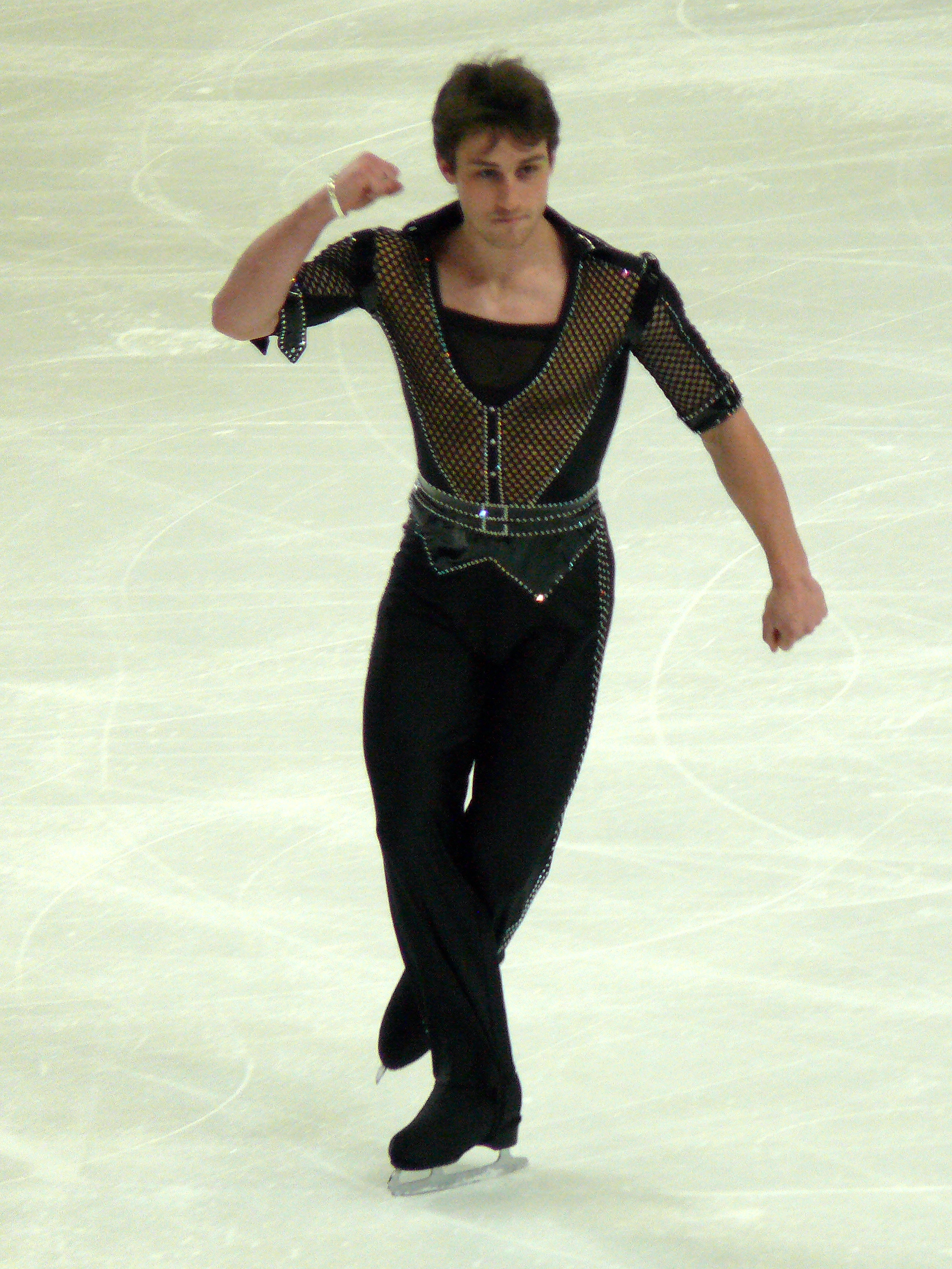 Brian Joubert (FRA) at his short program at the Europeans 2009 in Helsinki